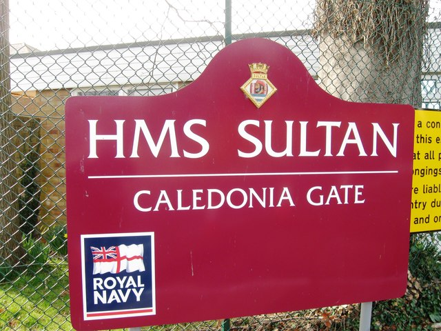 HMS Sultan Caledonian Gate